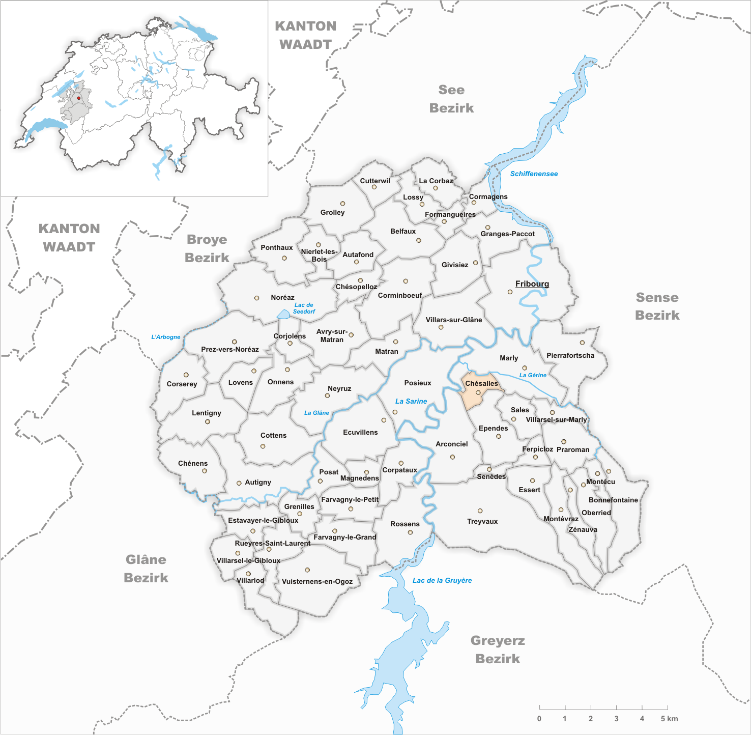 Municipality Chésalles Artist: Tschubby